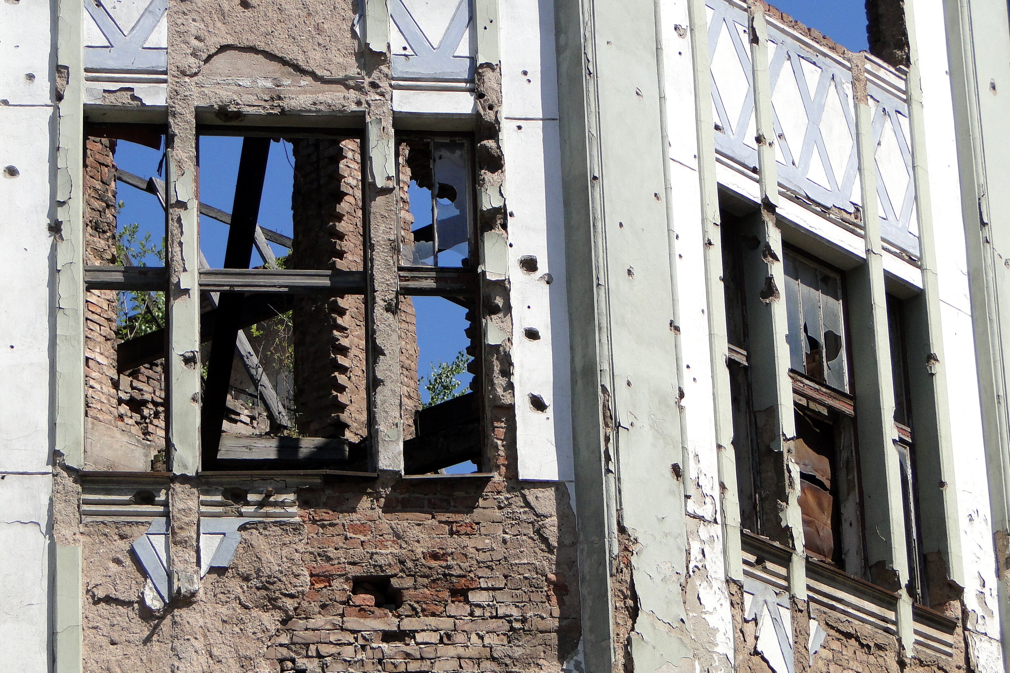 Siege-Shattered Facade - Sarajevo - Bosnia and Herzegovina